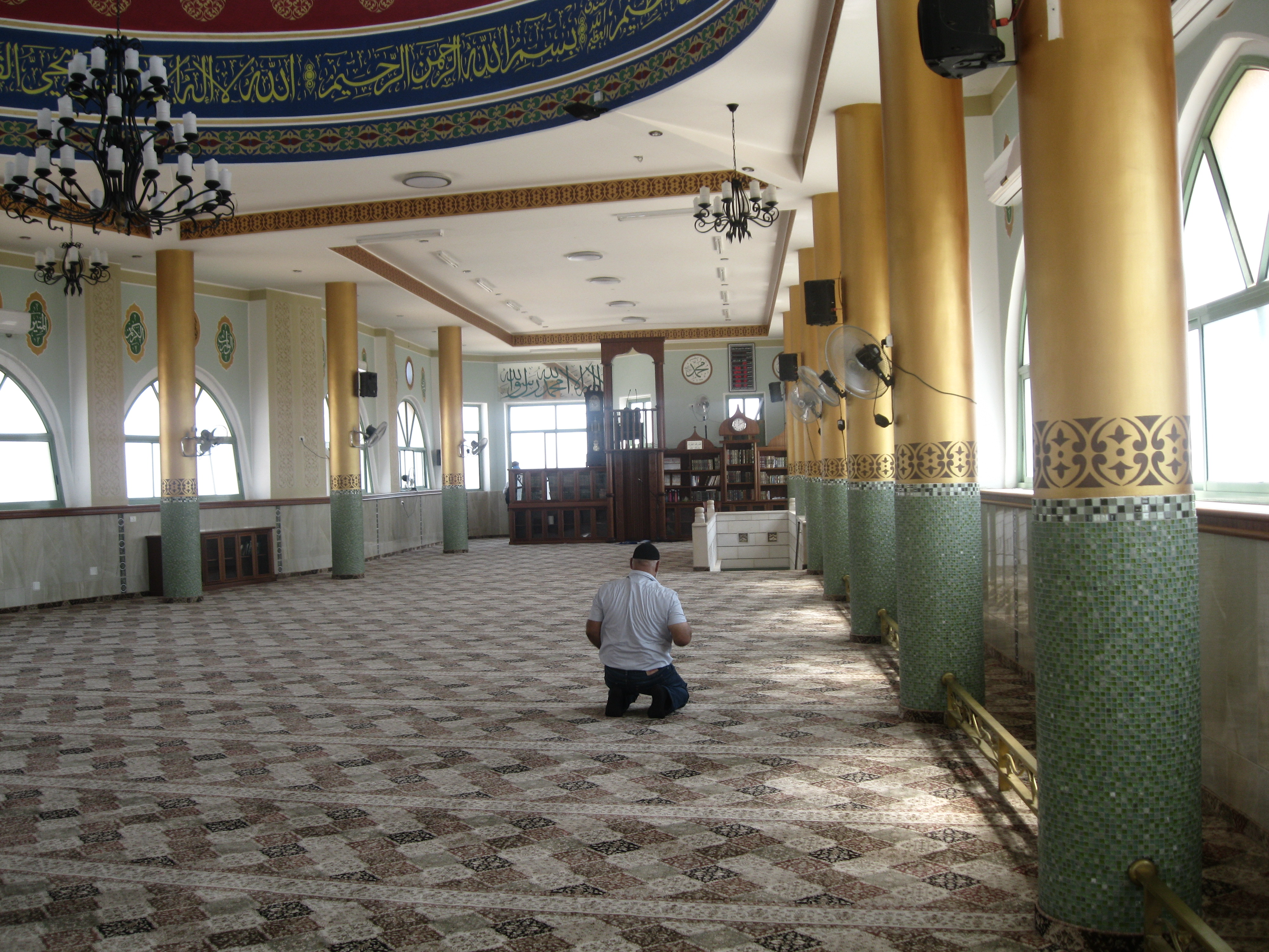 Mosque in Nazareth